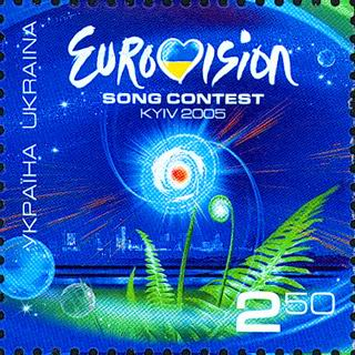 Stamp of Ukraine